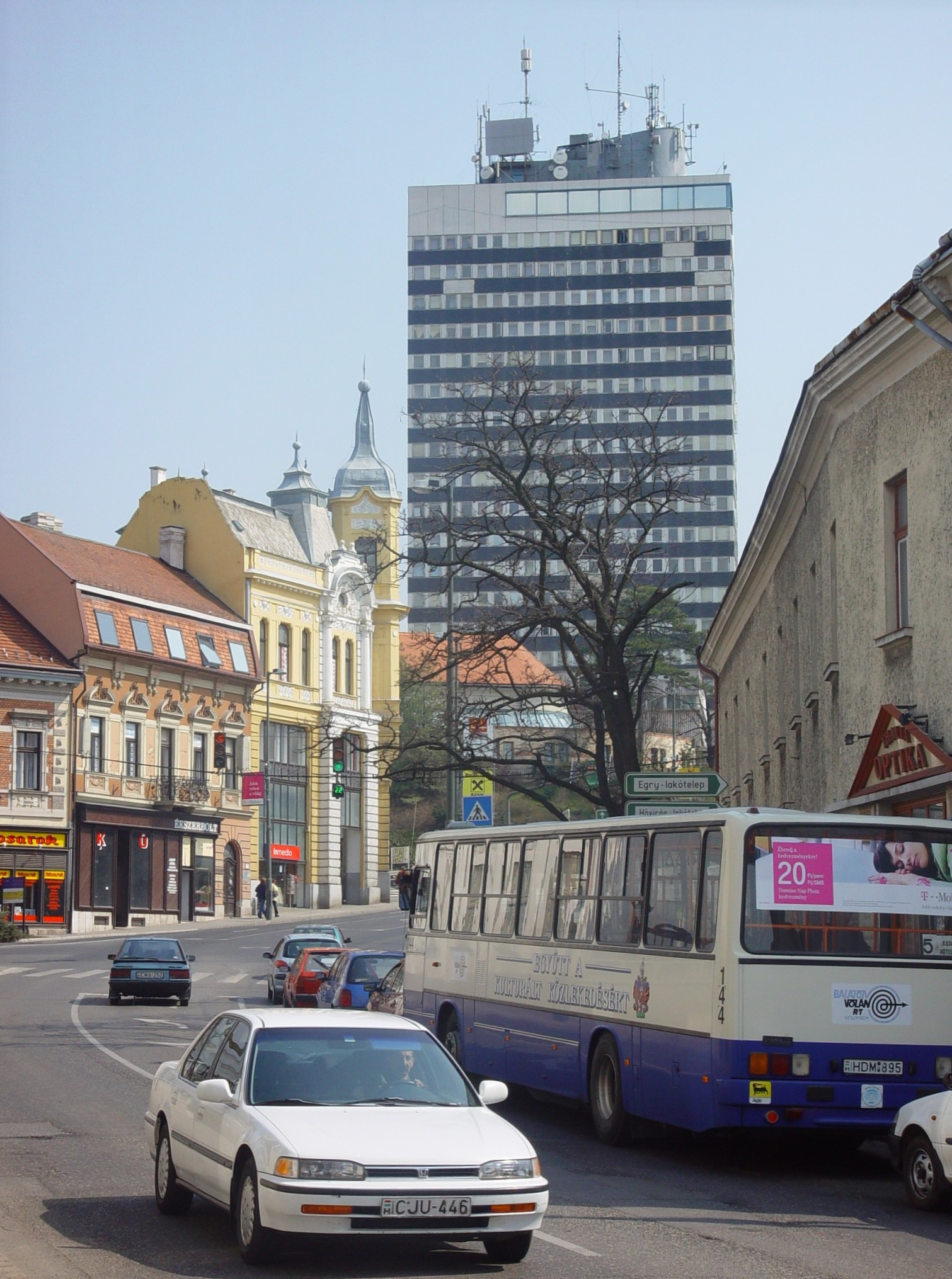 A 18-storey building known in Veszprém as "the 20-storey Building". The building was supposed to be 20 stories high but when the authorities realised that it would give excellent sight into the Soviet Airport in Szentkirályszabadja it had to be re-designed.